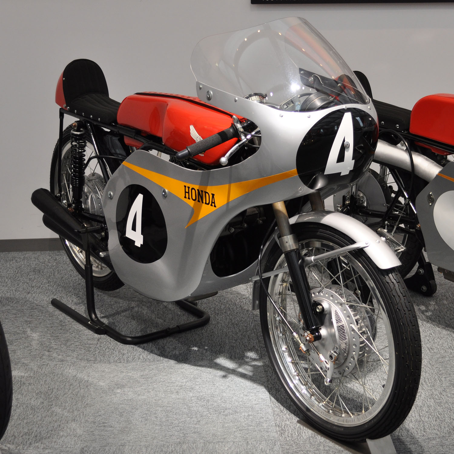 Honda 2RC146 (Jim Redman, 1964)